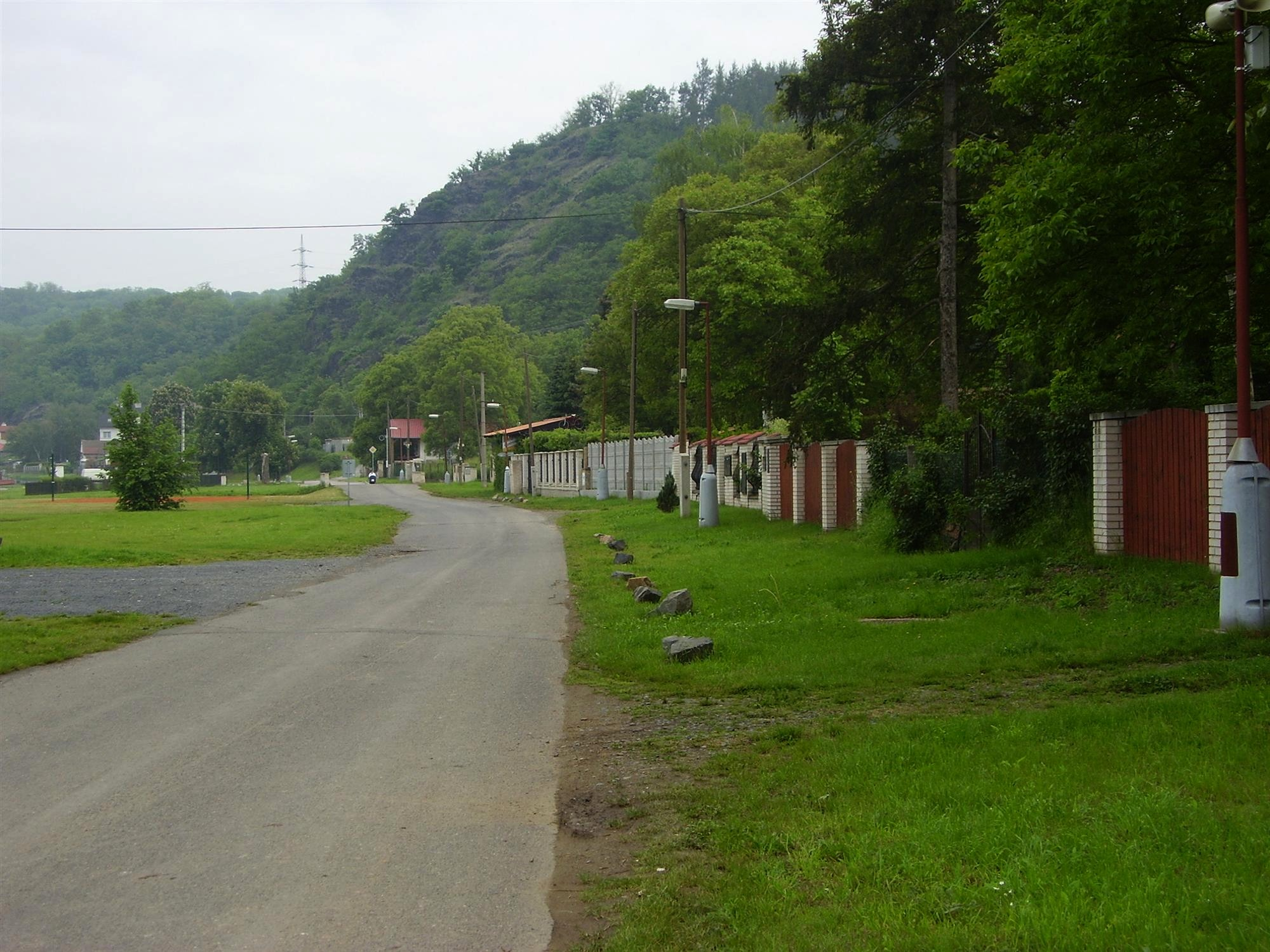 Track in Klecánky next to Vltava